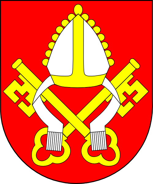 Coat of arms (shield only) of John Hughes, archbishop of New York (1842 - 1864), based on misaic in St. Patrick's Cathedral